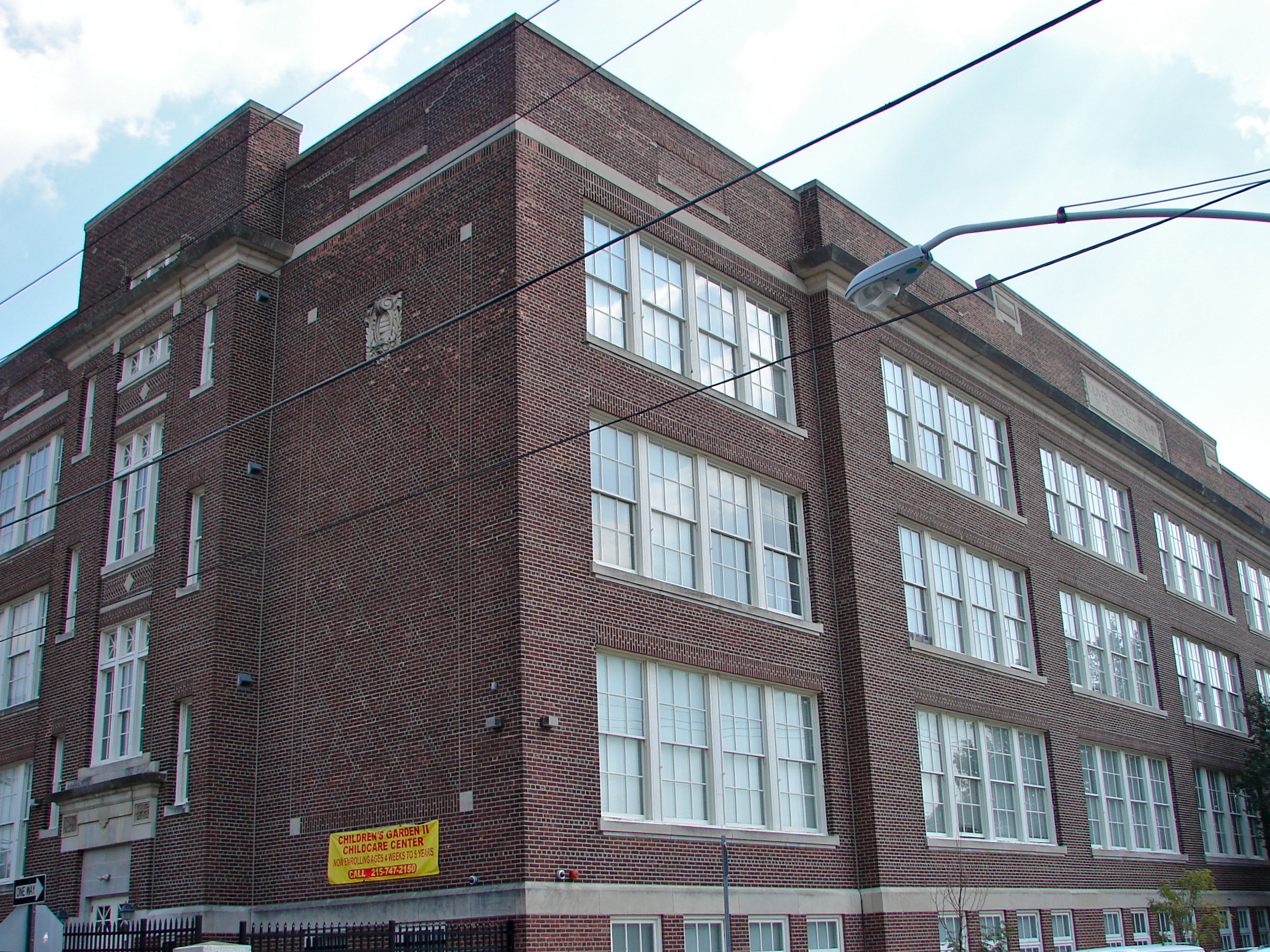 Holmes Junior High School in Philadelphia on the NRHP since November 18, 1988. At 5429 Chestnut Street in the Cobbs Creek neighborhood of West Philly.